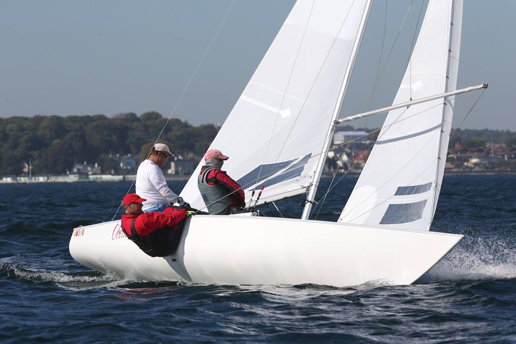 Silver Soling 2018 Vintage Yachting Games